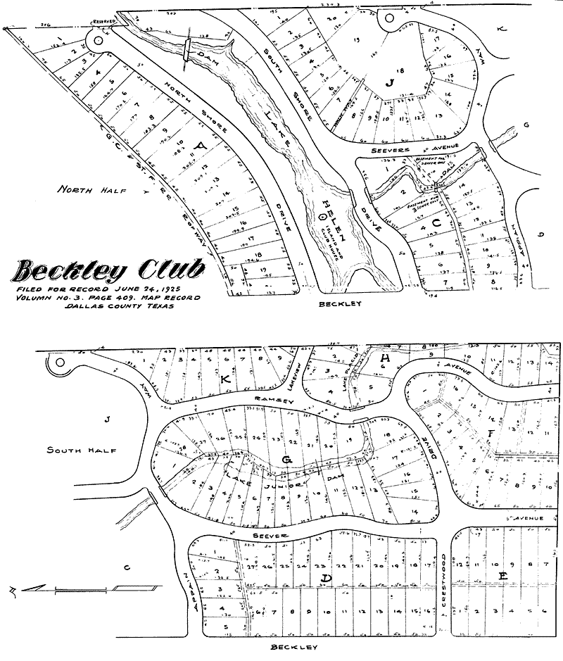 Plat of Beckley Club Estates